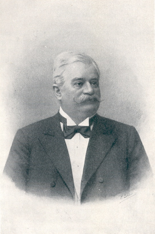 Wilhelm Riedel (1829–1916), German cloth manufacturer und benefactor